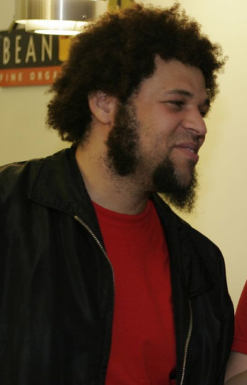 Image of Crowded House's Matt Sherrod. Source: Flickr User "Irina Slutsky"